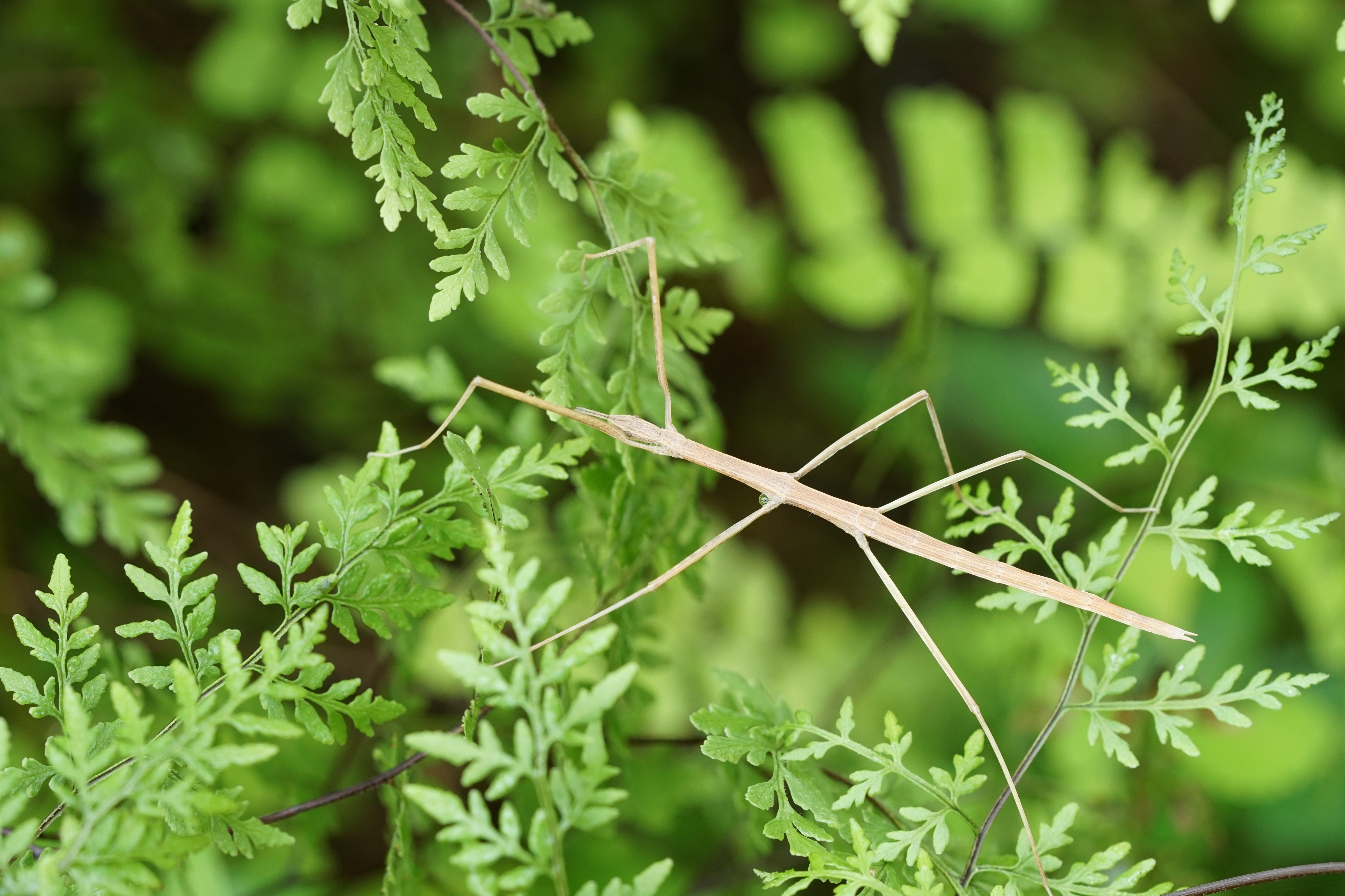 Stick insect (Phasmatodea)